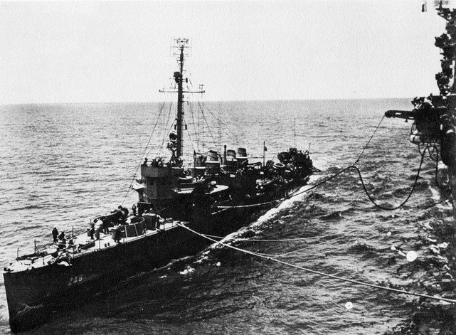 The U.S. Navy destroyer USS Bainbridge (DD-246) refueling from the aircraft carrier USS Hancock (CV-19) in the Atlantic Ocean, in 1944.